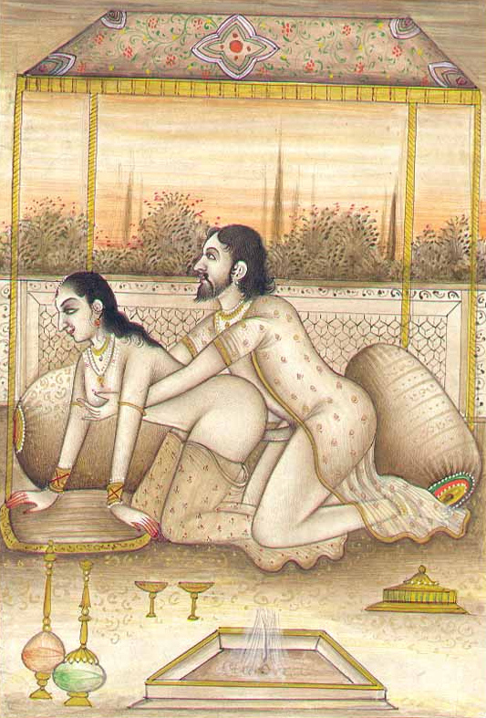 Kama Sutra Illustration